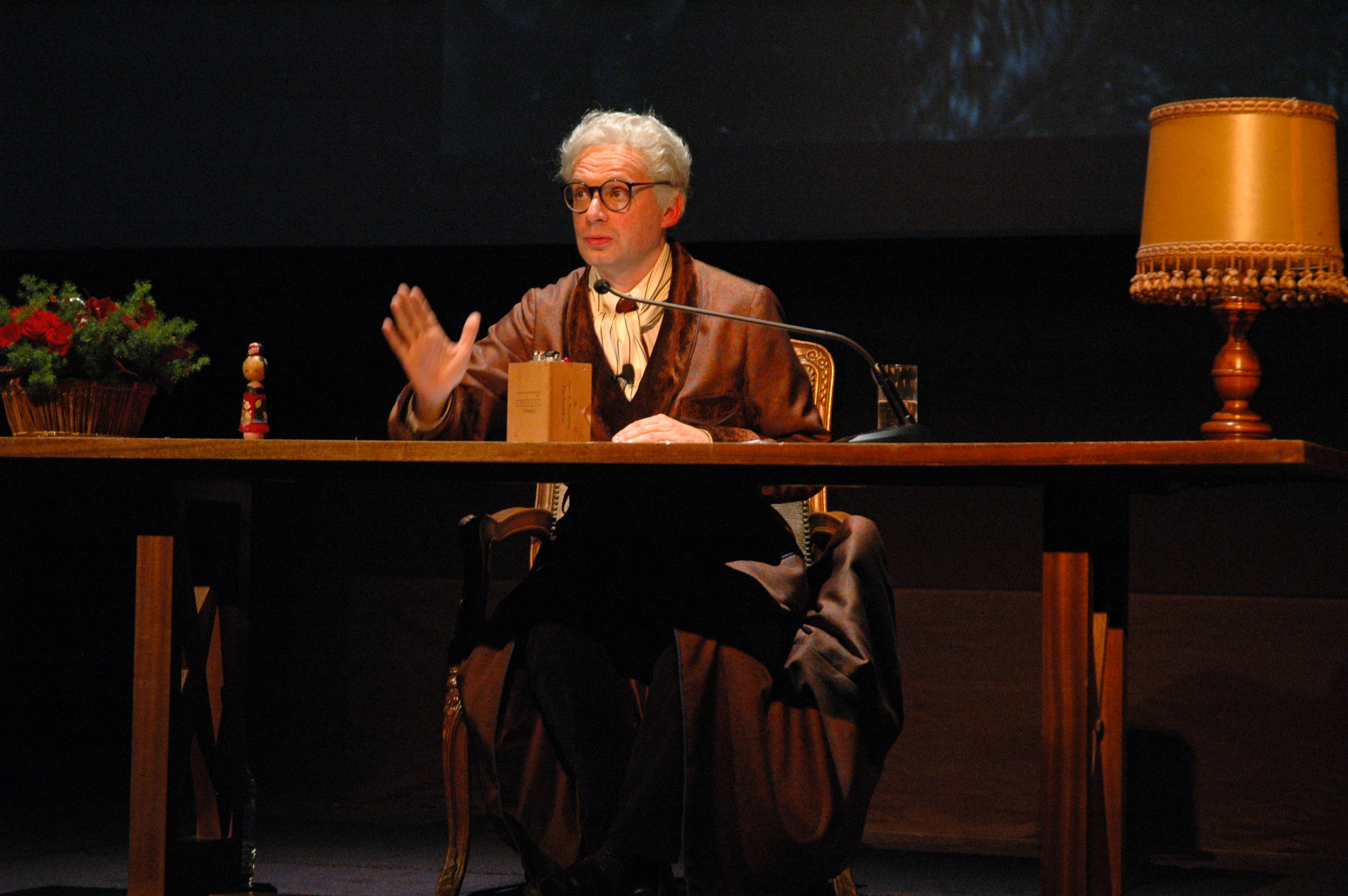 Denis Podalydès personifying Sacha Guitry in the Cinémathèque Française. Paris, France.